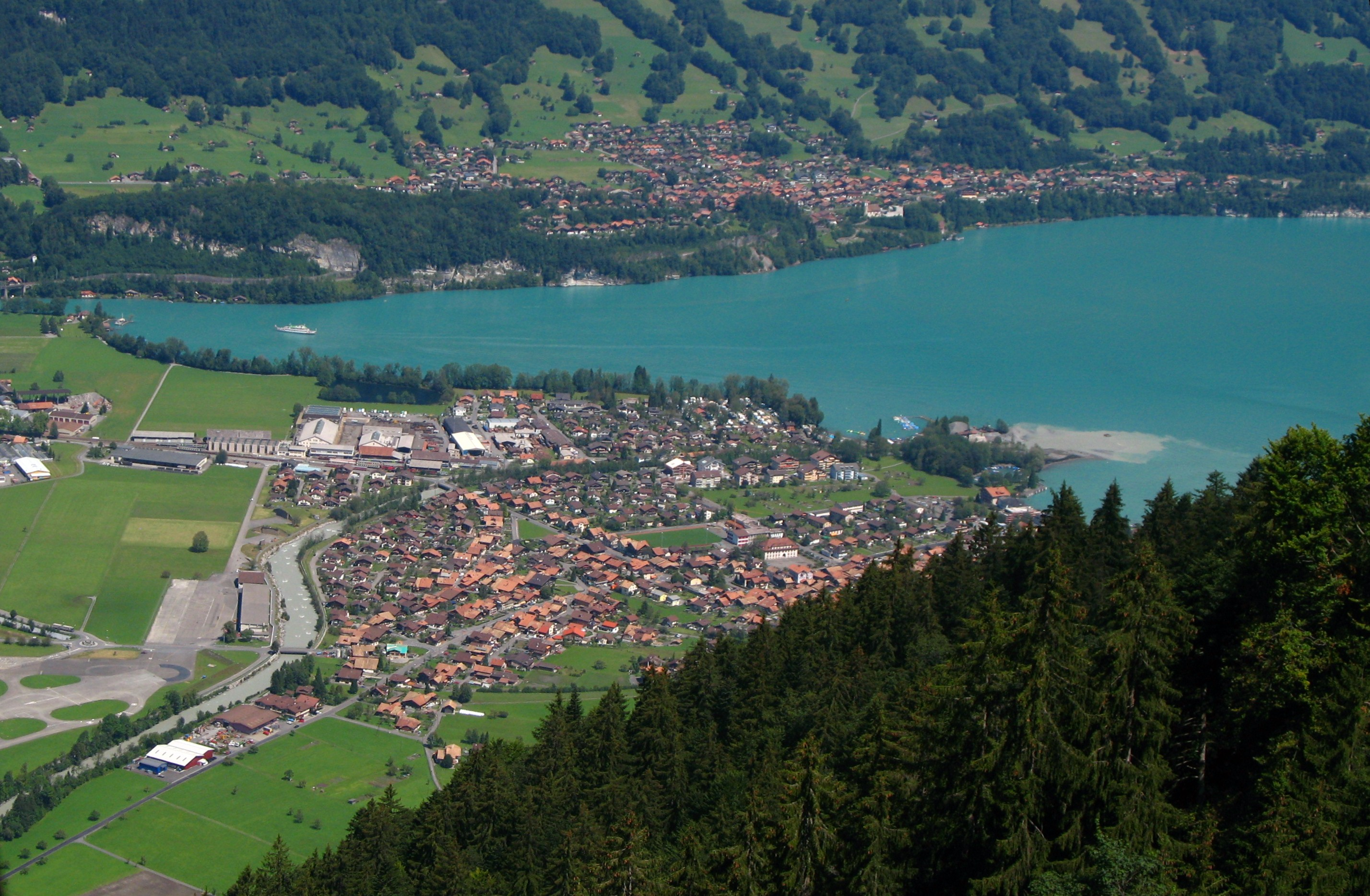 View of Bönigen and Ringgenberg from the Schynige Platte Railway, Switzerland